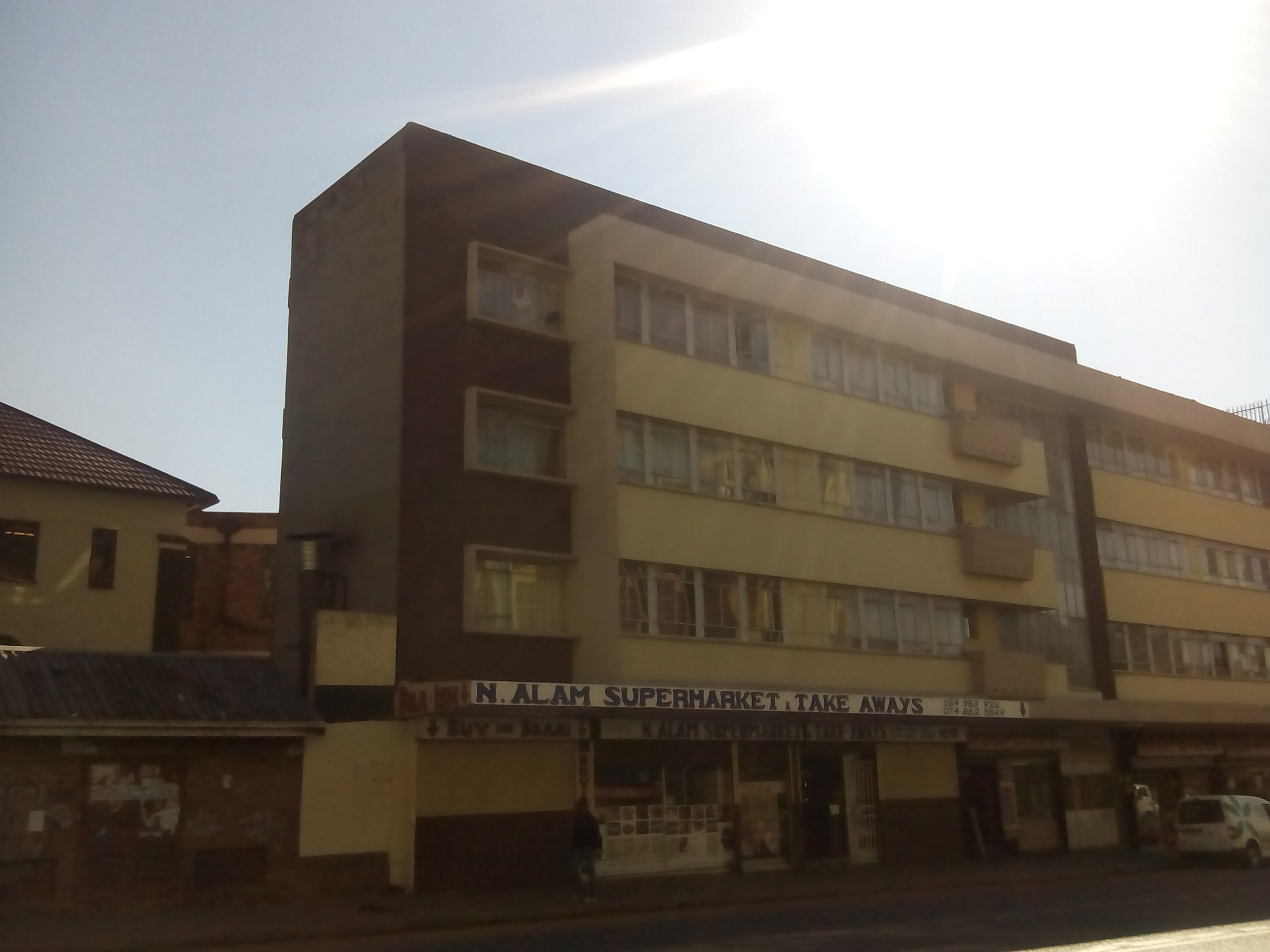 This is the Dorkay House in Johannesburg eloff street where musicians such as Miriam Makeba and Hugh Masekela used to rehearse